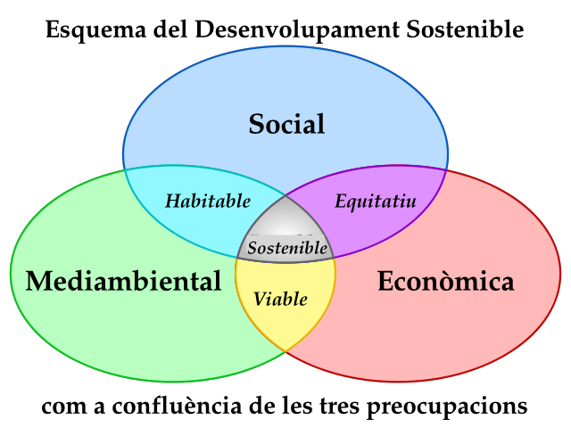 Catalan Translation from